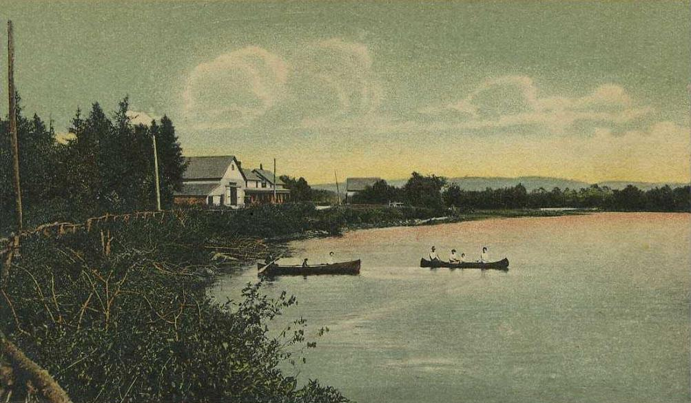 Pontook Pond, Dummer, New Hampshire